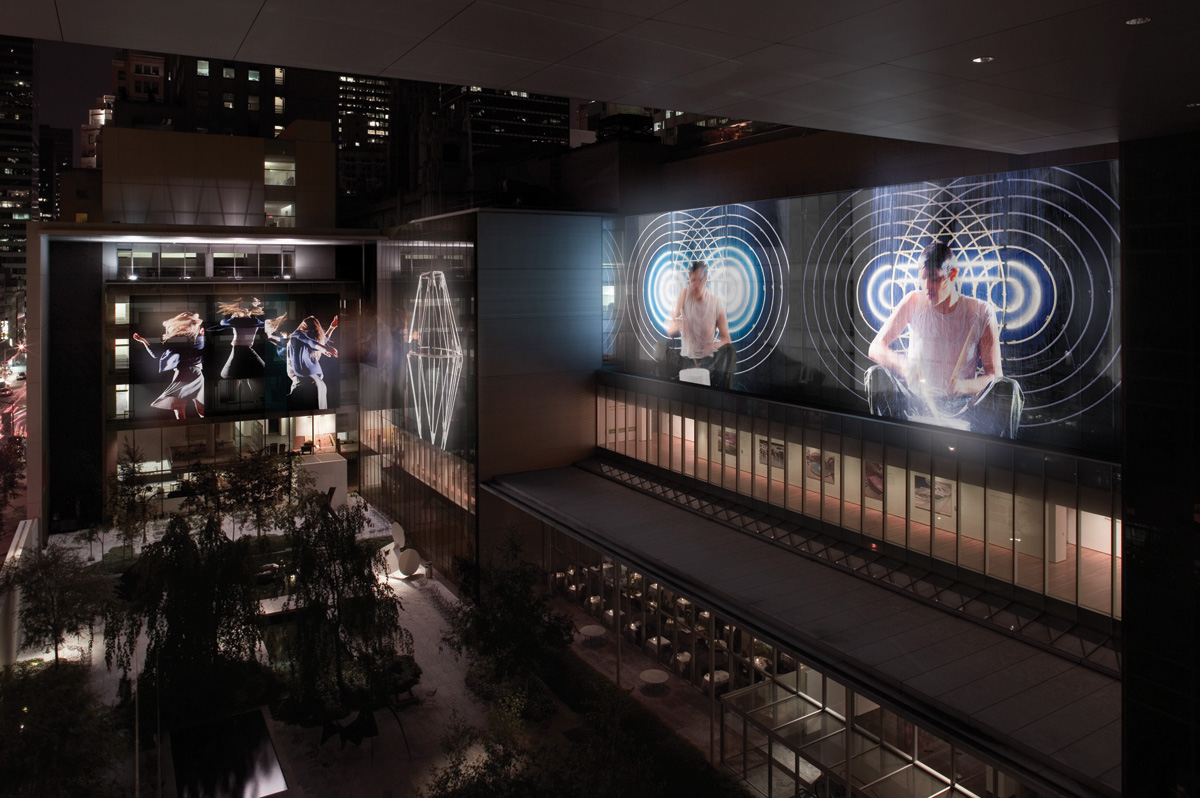 Doug Aitken's Sleepwalkers video installation at MoMA in New York